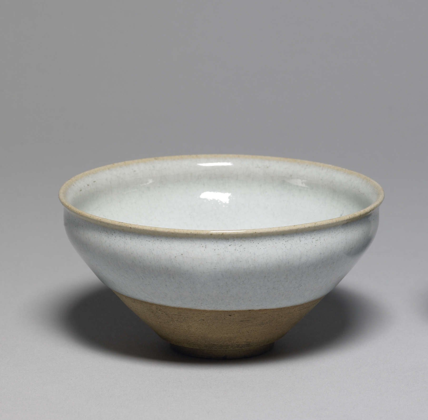 This bowl is in the style of "white-temmoku." It is an example of Seto or Nagoya, Ofuke ware.